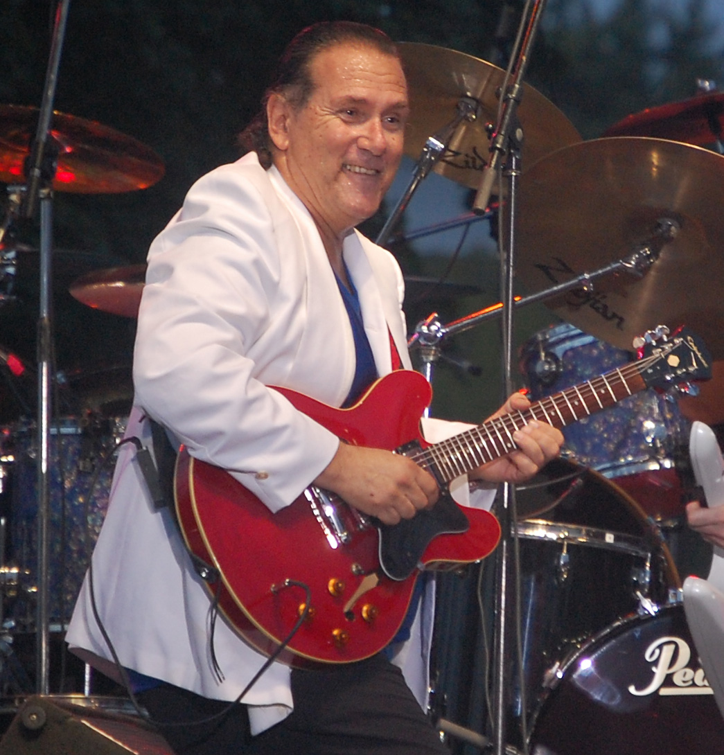 Mike Pinera as part of The Classic Rock All Stars, at Lawrenceburg, Indiana's Fall Fest 2009